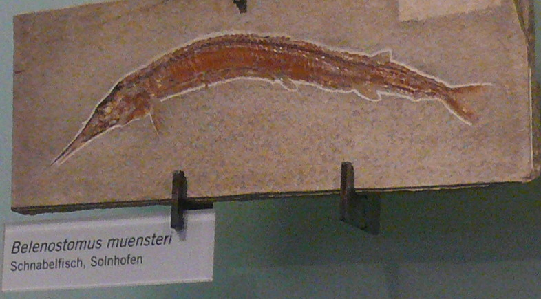 Belonostomus muensteri from Solnhofen, Germany